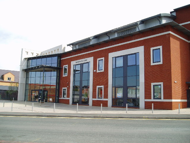 Kidderminster Magistrates' Court. The building is situated in Comberton Place, just below the Severn Valley Railway station.